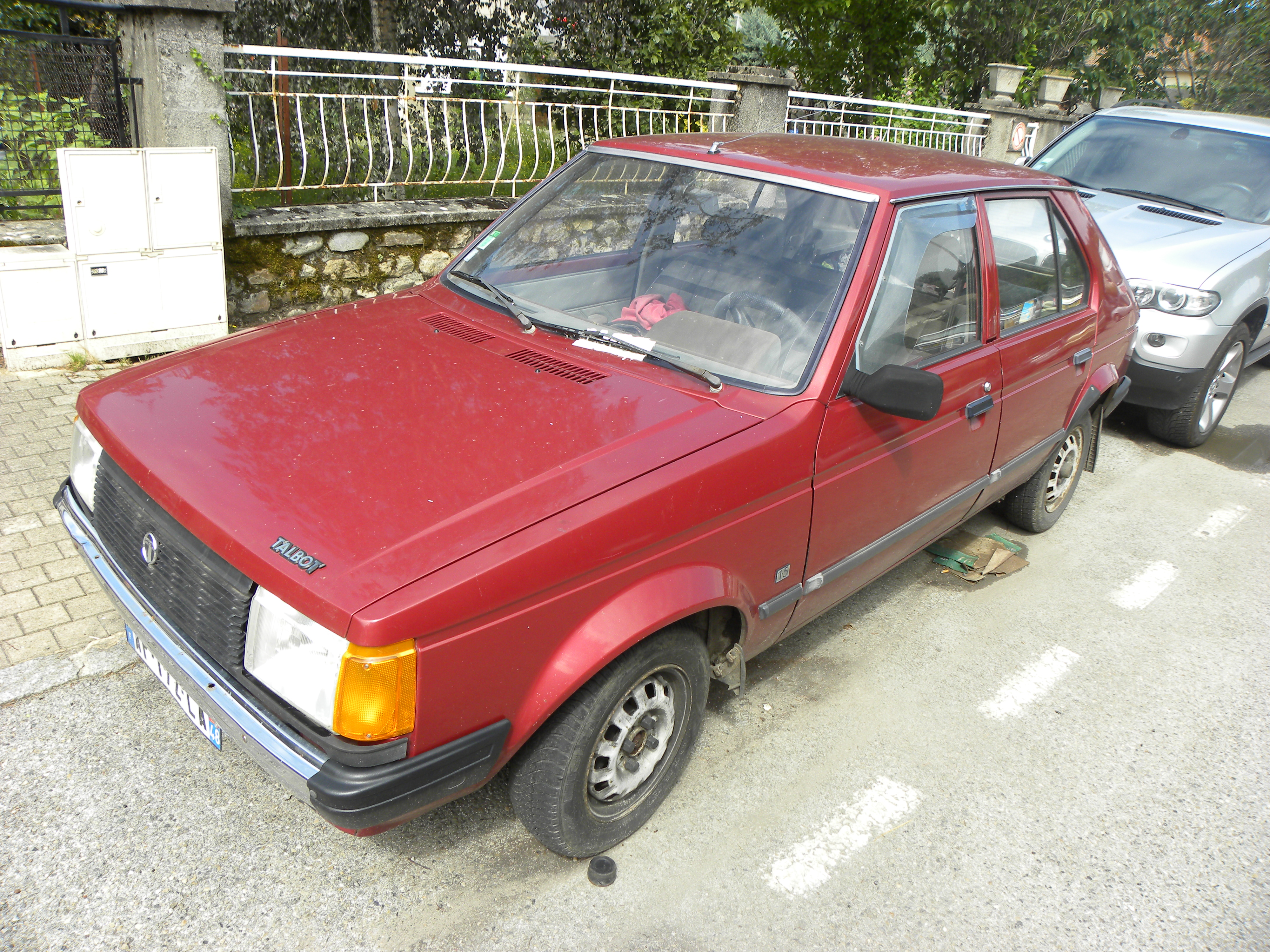 Talbot Horizon GL